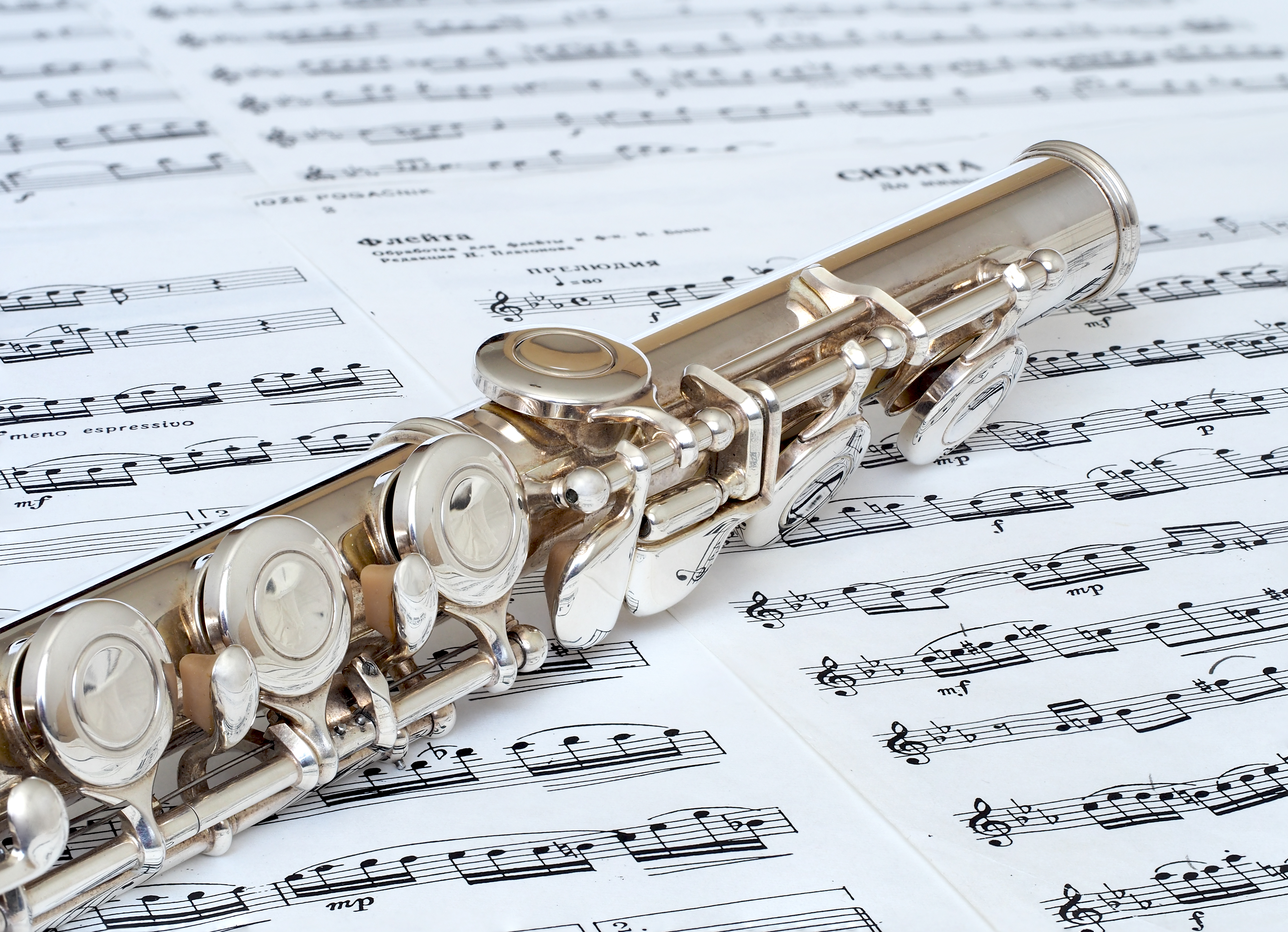 Flute with musical notes. Instrument: Yamaha YFL-325 with plateau keys, silver plated nickel silver body, production years 1980 to 2000.[1]